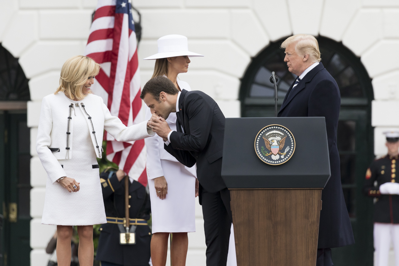 The arrival ceremony of the President of France and Mrs. Macron (Official White House Photo by Andrea Hanks)